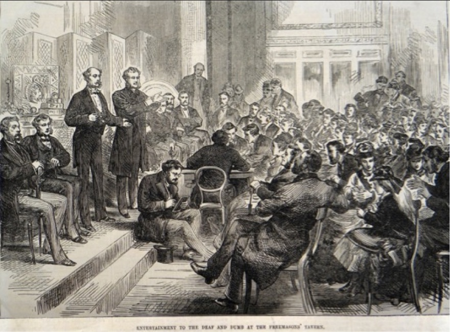 Meeting in the hall of the Freemason's Tavern, London with sign language for deaf and dumb people, published in the Illustrated London News. The hall was designed by Thomas Sandby